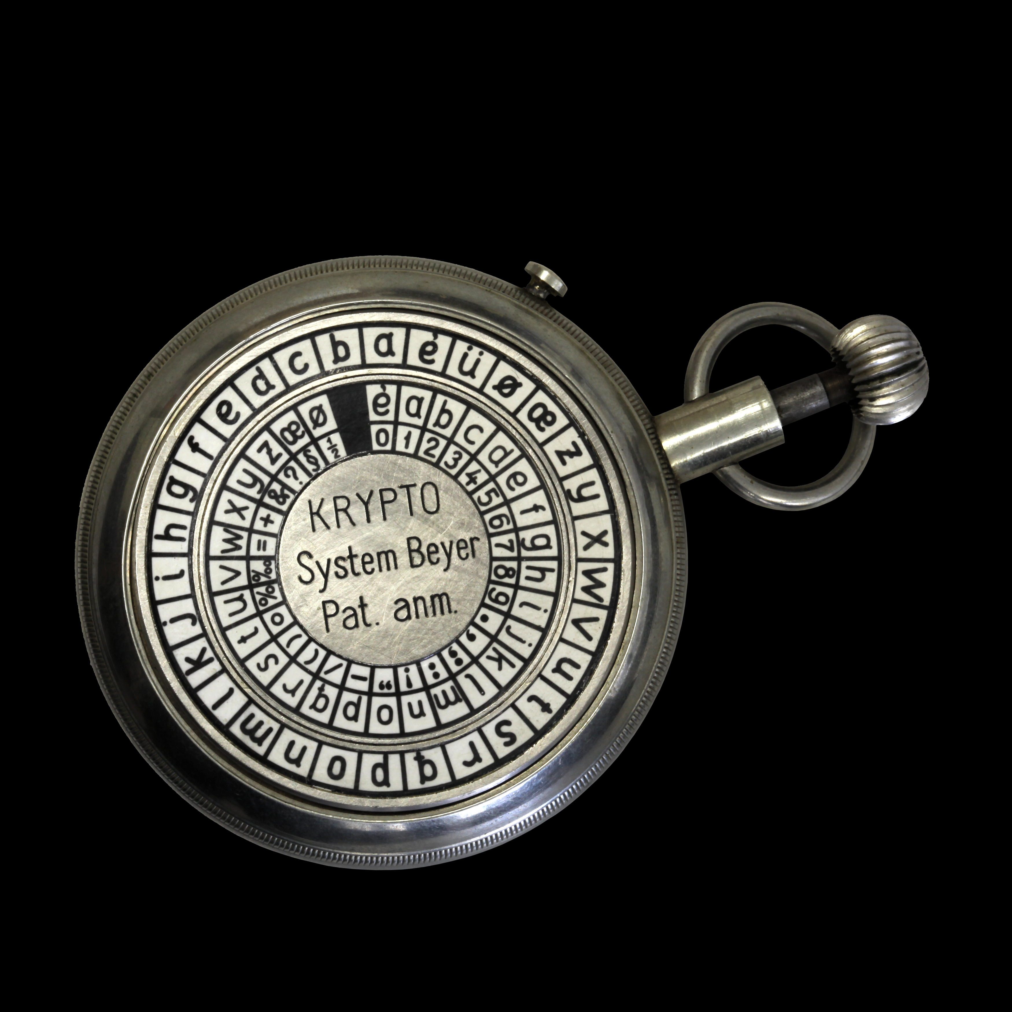 Krypto System Beyer [1]. Cryptography collection of the Swiss Army headquarters The making of this document was supported by Wikimedia CH. (Submit your project!) For all the files concerned, please see the category Supported by Wikimedia CH.